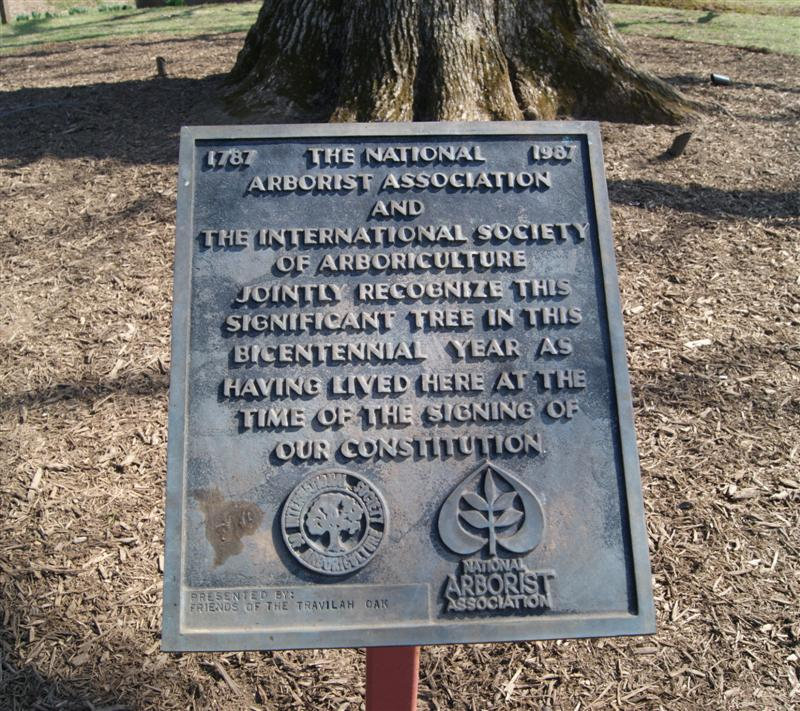 A photo of the plague recognizing the Travilah Oak for its age.